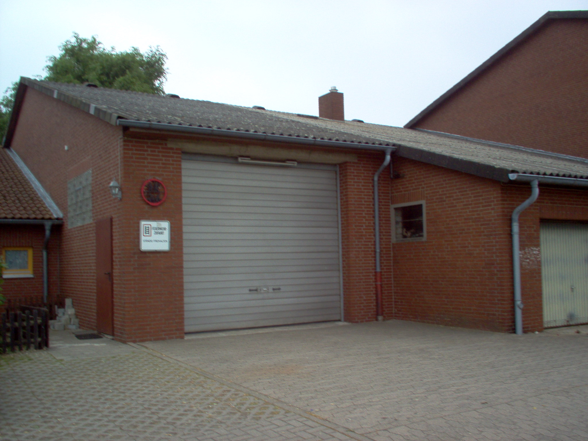 Volunteer fire department Rethen (Vordorf, Lower Saxony, Germany)